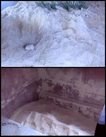 I took this photo graphs.